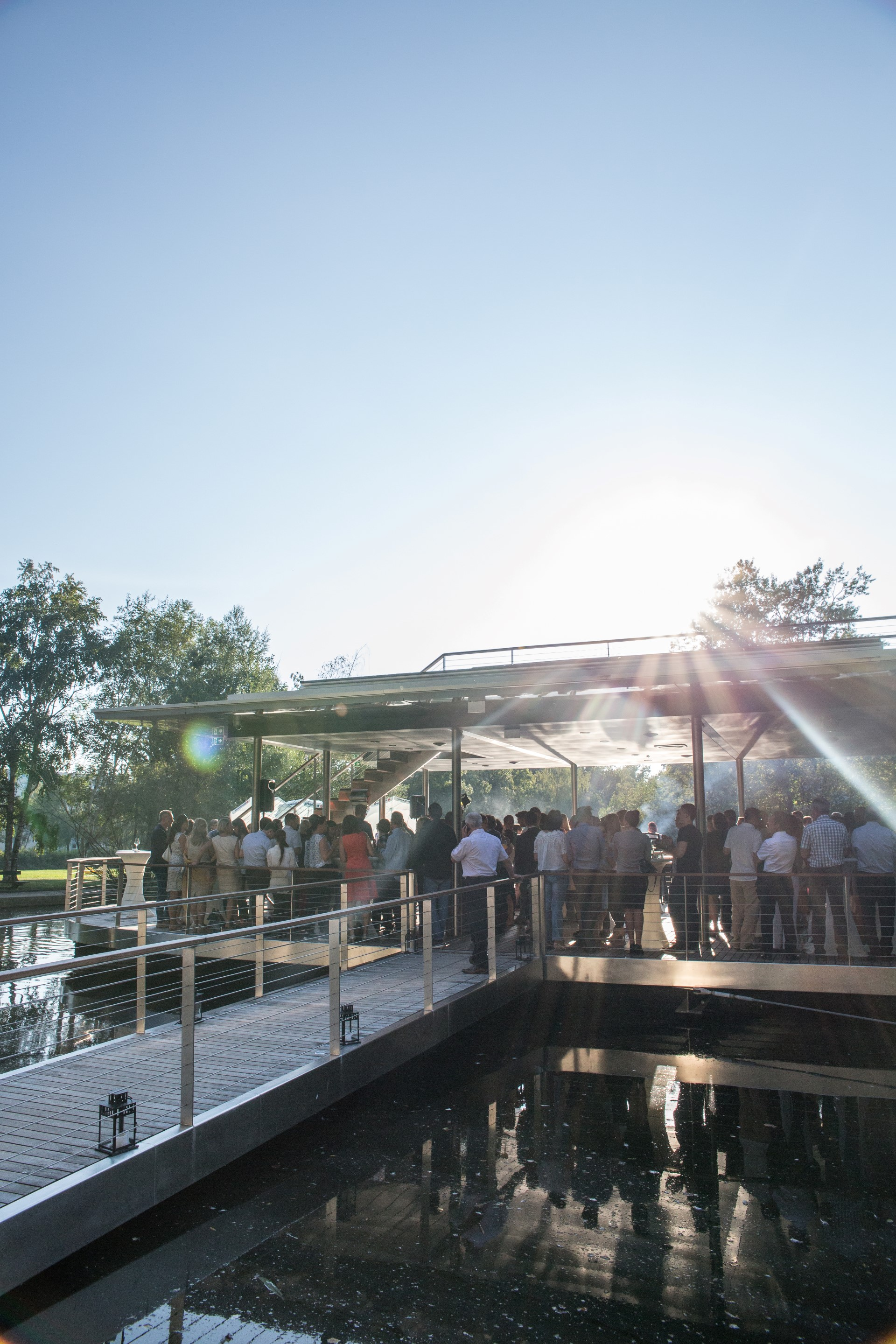 JKU Café-Bar Teichwerk